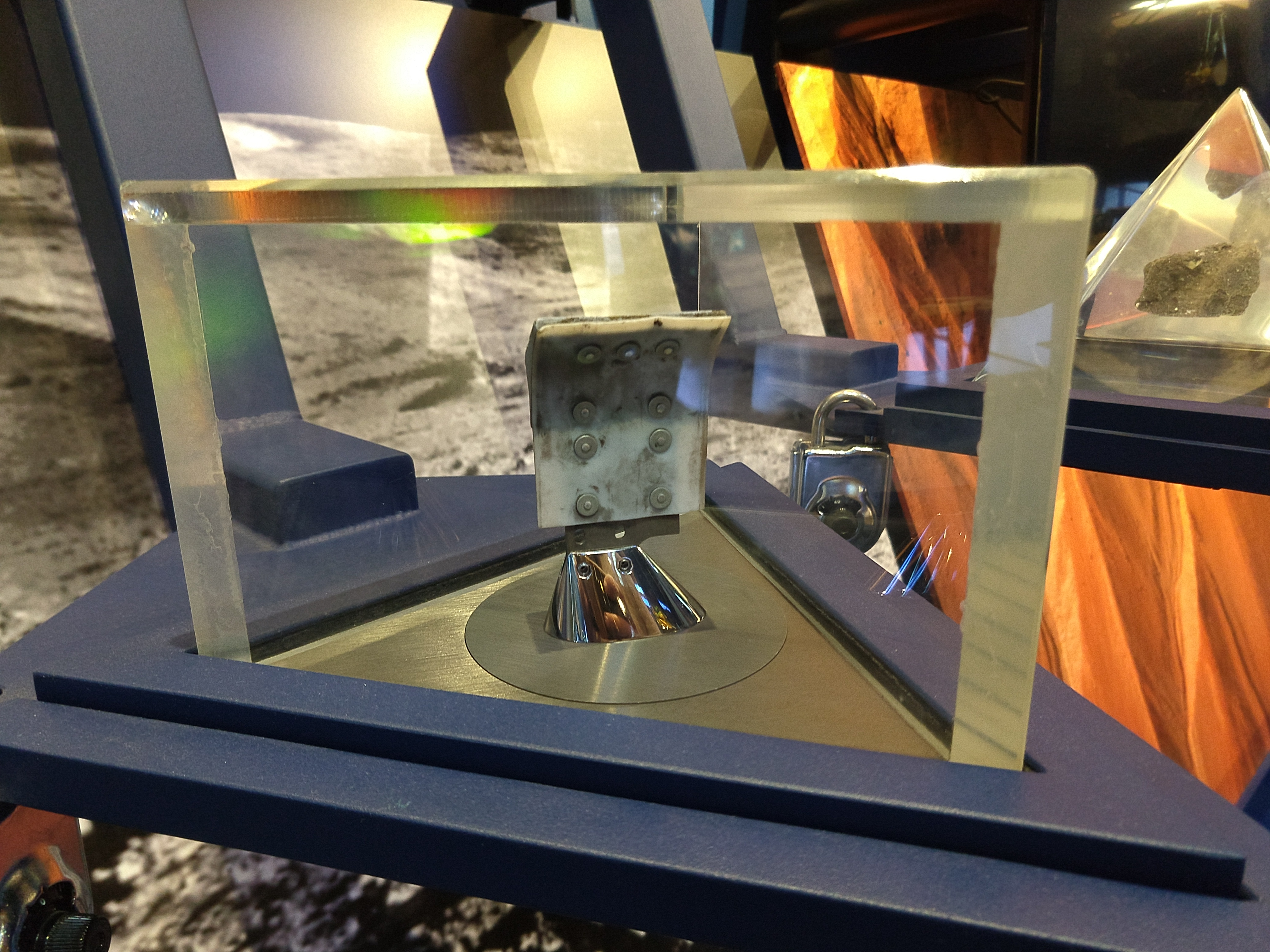 Soil mechanics surface sampler from the Surveyor 3 spacecraft returned to Earth by the crew of Apollo 12. On display in the Von Karman Visitor Center at the Jet Propulsion Laboratory. In the background is a lunar rock returned by the crew of Apollo 16.